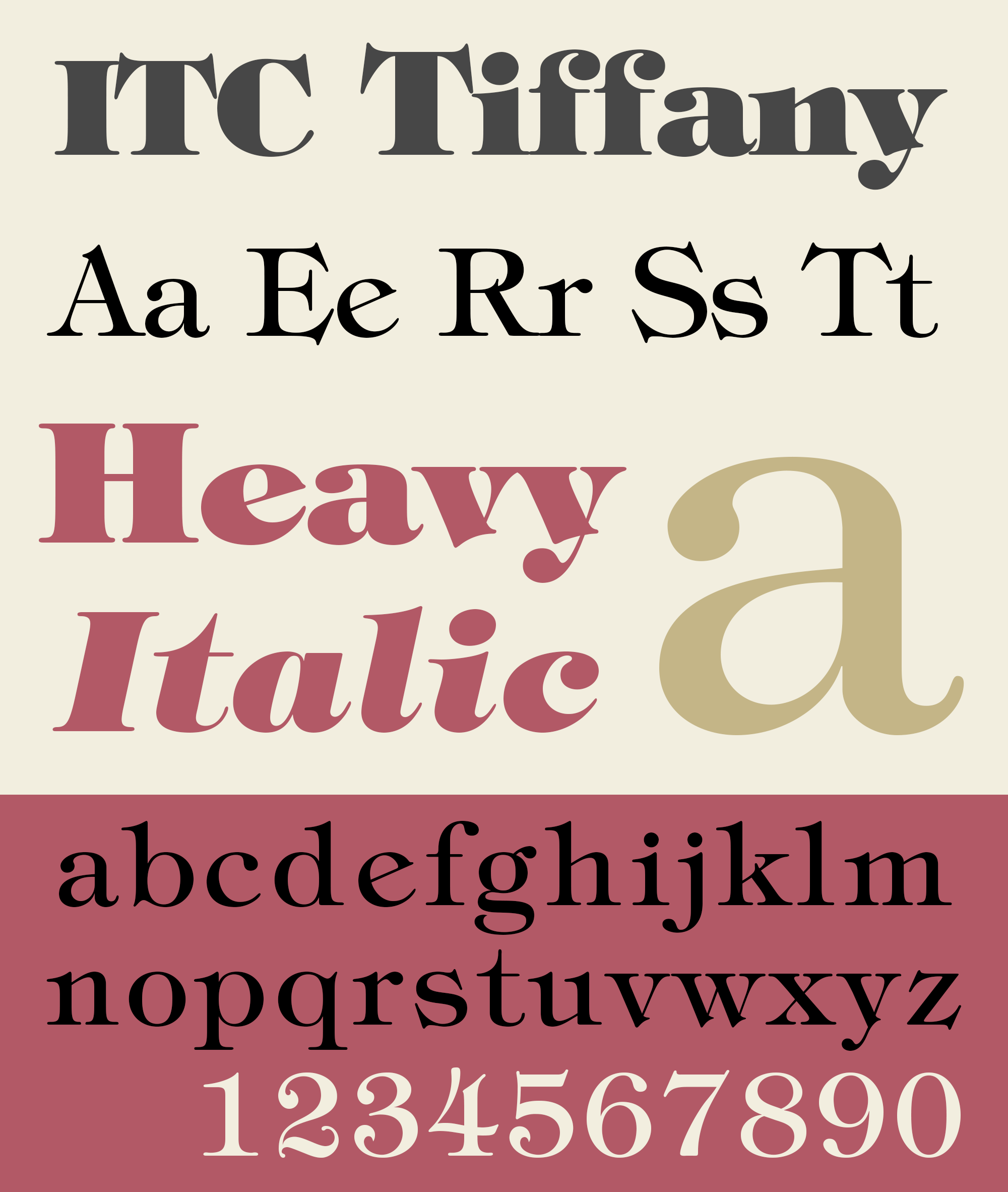 Specimen of ITC Tiffany